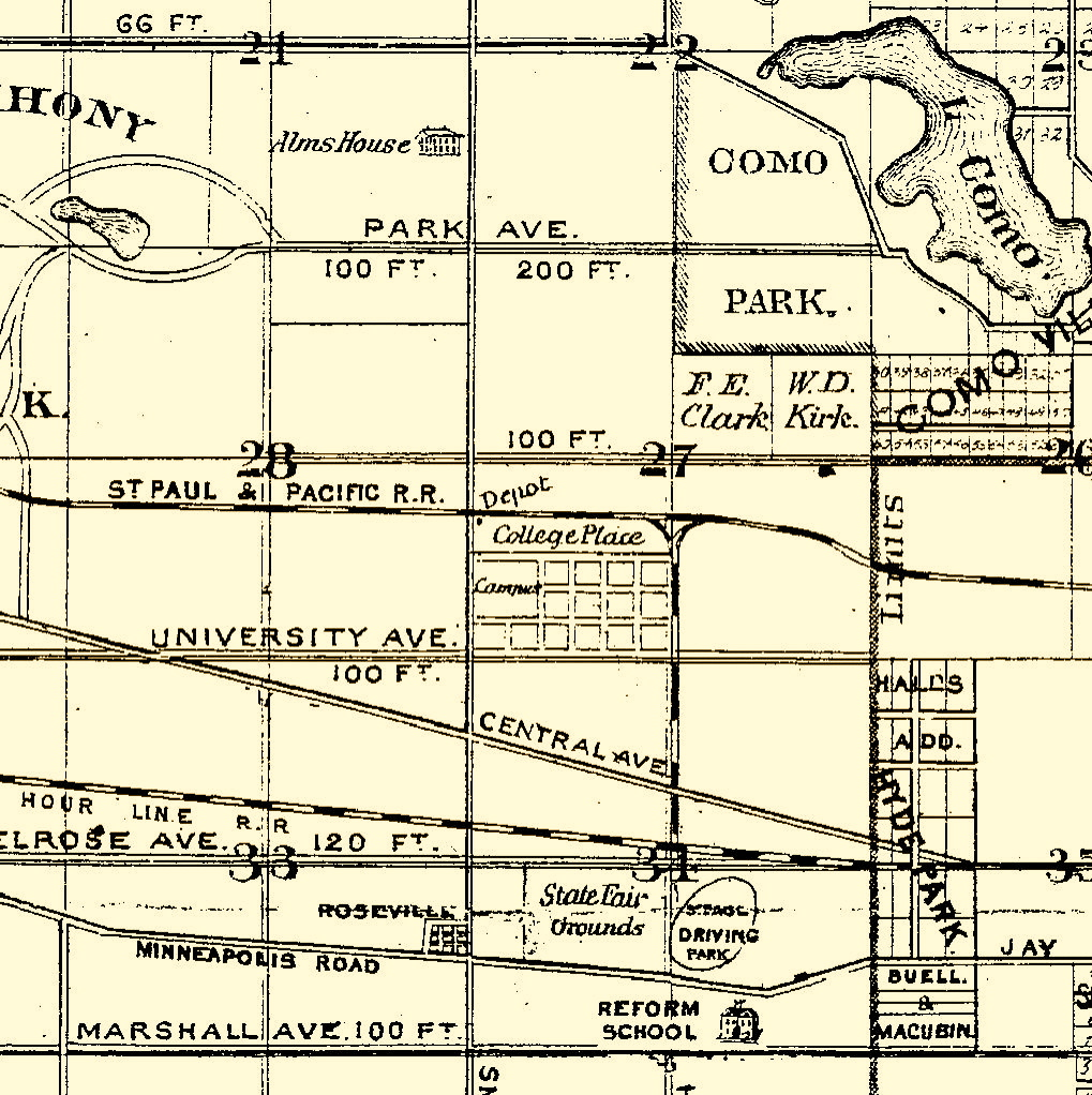 Historic map of the Hamline-Midway neighborhood, first published in 1874.